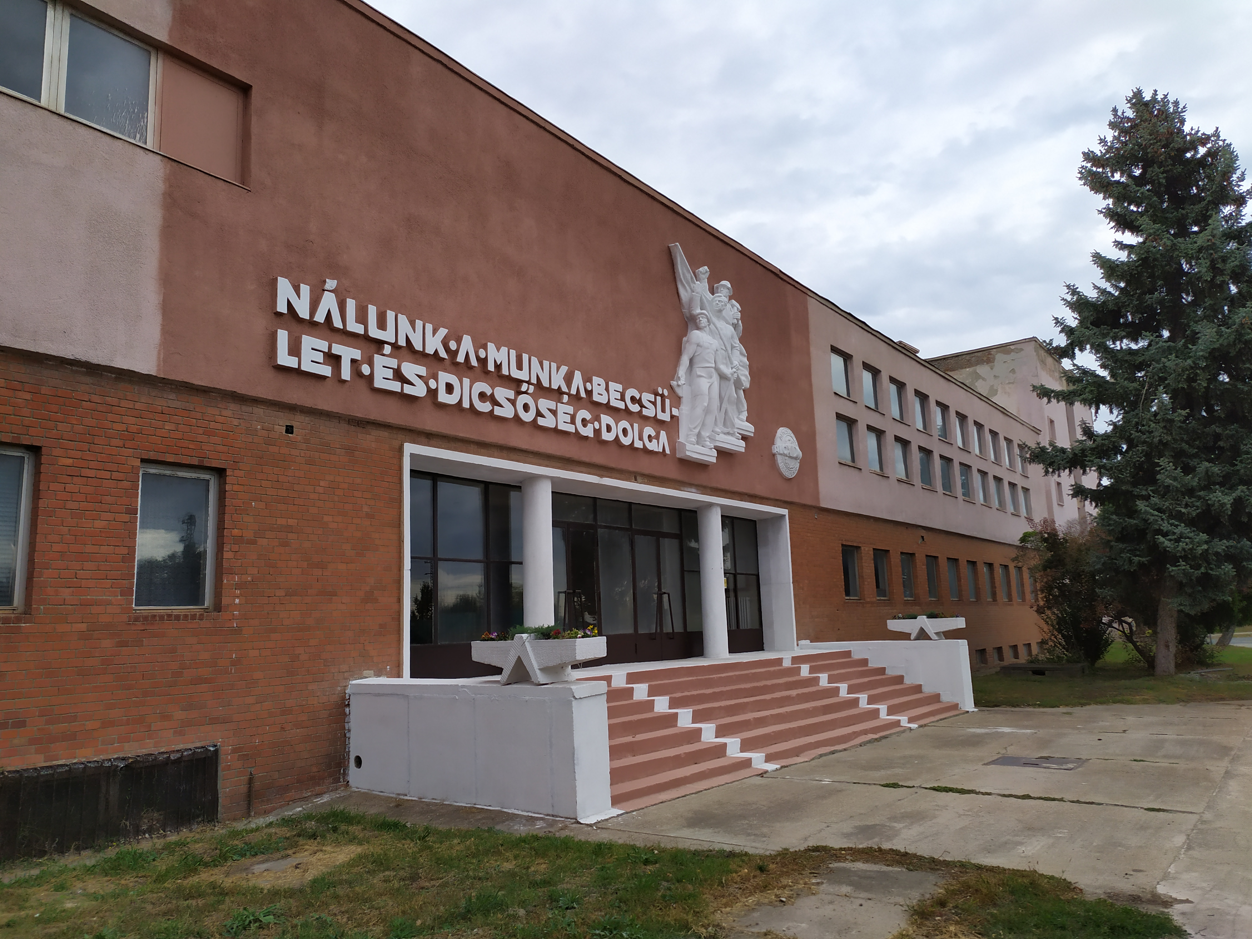 Almásfüzitő Aluminium Oxyde Factory